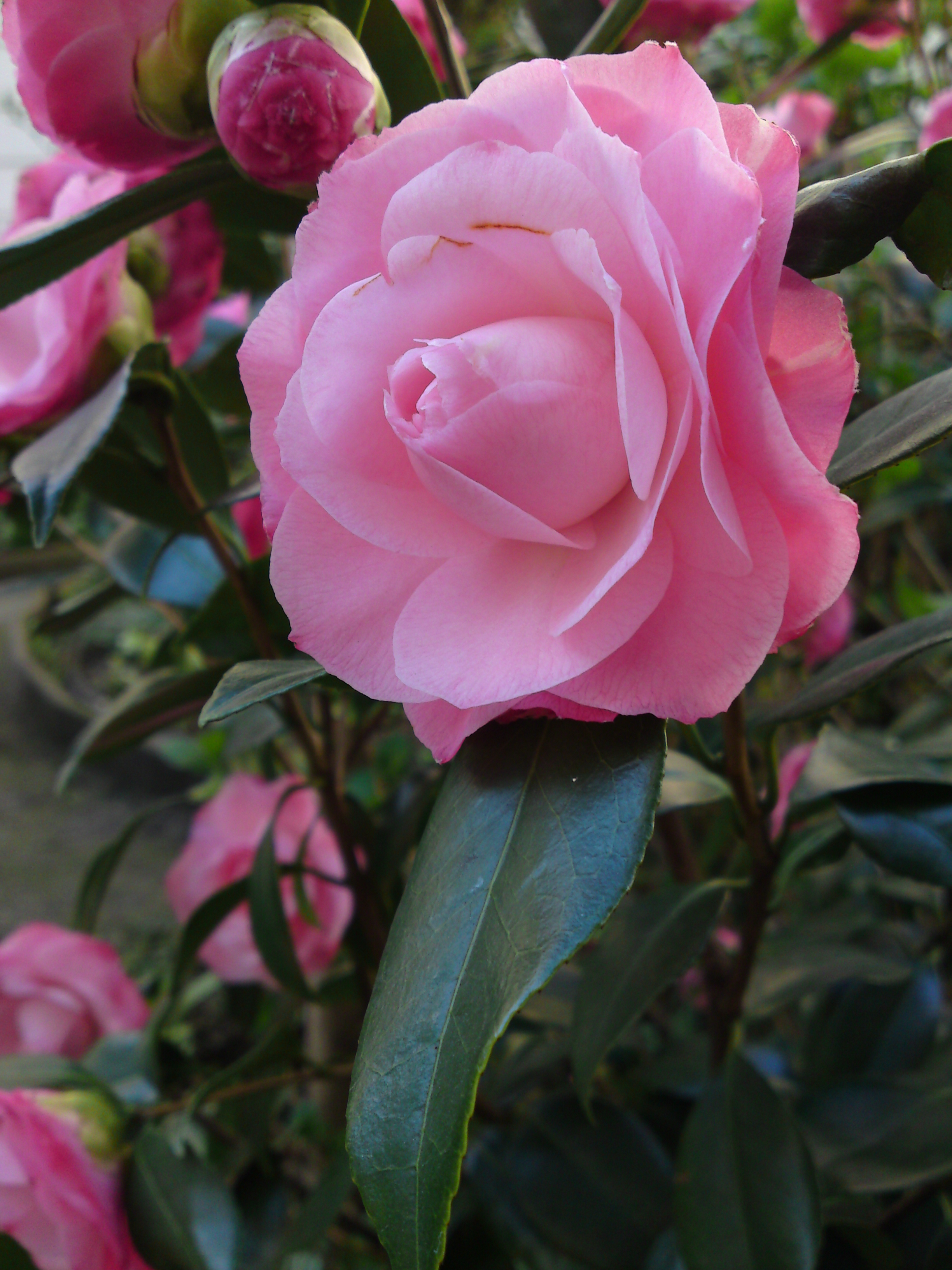 A Camelia flower from Paris